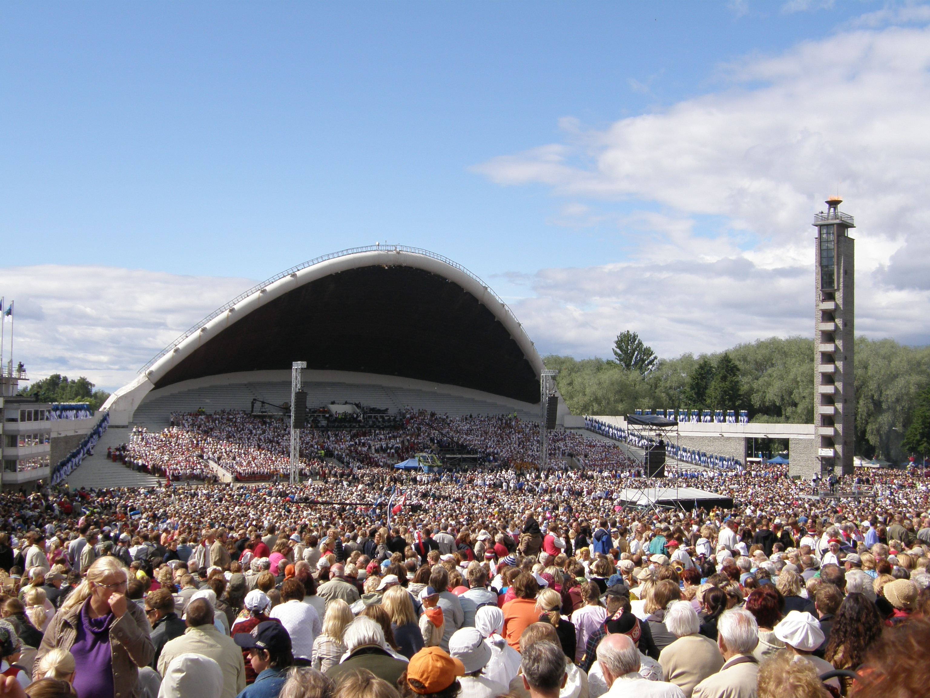 XXV Song Celebration